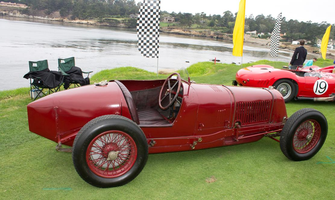 The Maserati Tipo 26B (chassis 33/2515) is considered to be one of the, and possibly the, oldest running Maseratis in the world. It first appeared as a works factory car in 1928 at the Targa Florio, driven by the Marquis Diego de Sterlich. For 1930 it returned as a factory team car fitted with a 2.5 liter engine. At the Grand prix of Rome, Luigi Archangeli scored his first major victory and at Monza finished second. in 1931 Rene Dreyfus drove the car although struggled with reliability in the first two races in Tunis and Tripoli. Dreyfus claimed pole position for the Monaco grand Prix, setting fastest lap in qualifying. For the 1932 season Dreyfus was again at the wheel, coming in first in the Reale Premio di Roma and second at the Grand Prix de Marseille and Nimes. The car was used sparingly for the 1933 season and its final races were at Monaco and Montlhery. When war broke out in Europe, 2515 was hidden in an Algerian cave before reappearing in 1954 in Morocco. It was eventually stored in an aircraft hanger in France until discovered by an American collector. Television personality Alain de Cadanet owned it in the 1980s before its current owner acquired it in 2000. 2014 Pebble Beach Concours d'Elegance in Pebble Beach, California.